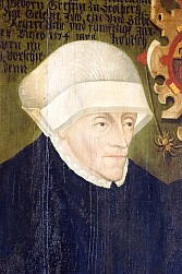 Countess Anna of Stolberg-Wernigerode (28 January 1504 – 4 March 1574) was a German noblewoman who reigned as Anna II. as 28th Princess-Abbess of Quedlinburg from 1516 until her death.